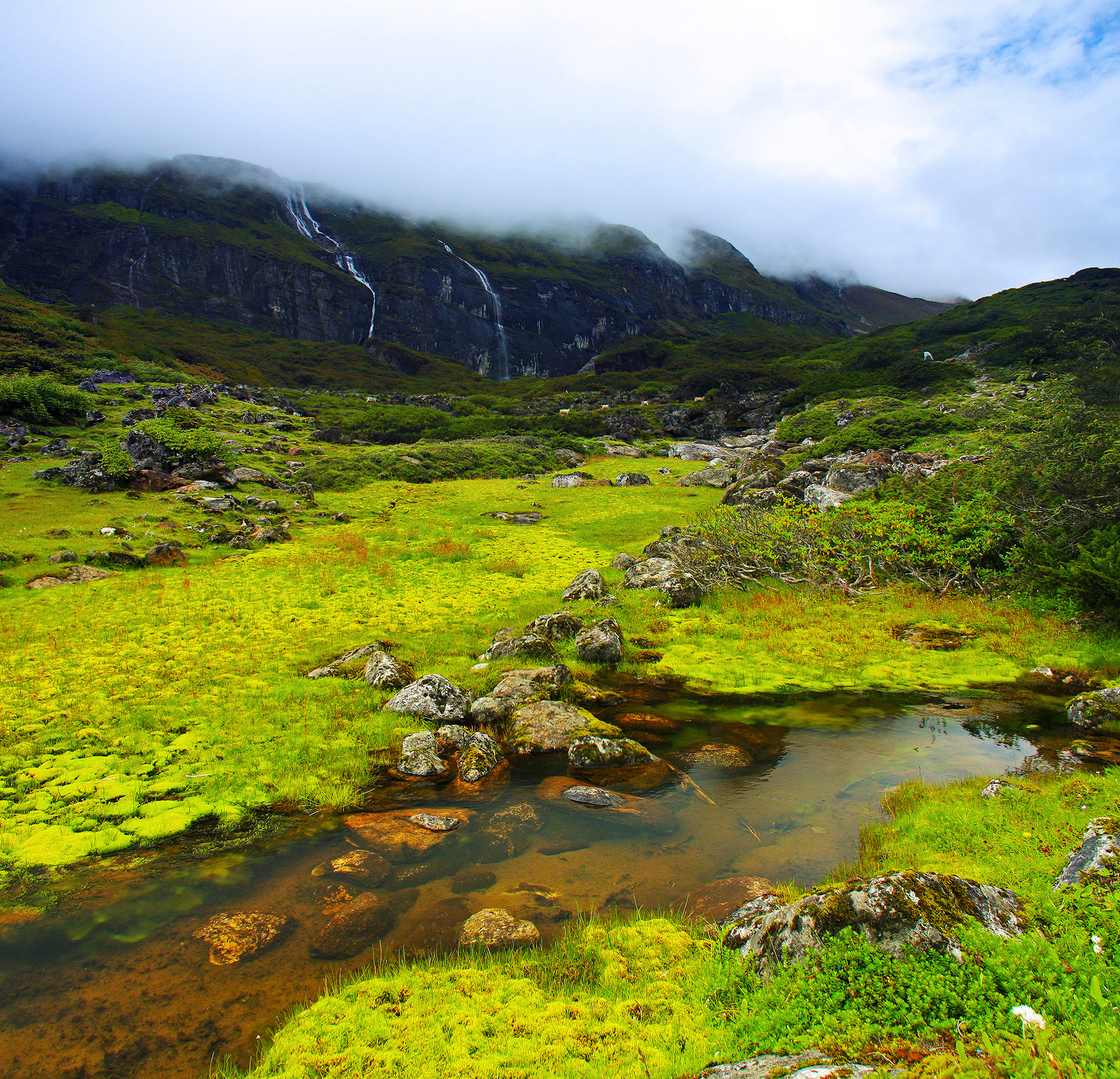 This is a place called Ripuk within the Barun Valley. Centuries ago, Barun used to be a glacier here, flowing to the north composing these lush green valleys for today. The cascading waterfalls against the stiff rocks was reflecting the sense of the flowing time and the eternity at the same time.